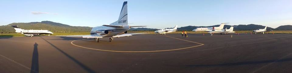 Rampa aeropuerto internacional Costa Esmeralda.